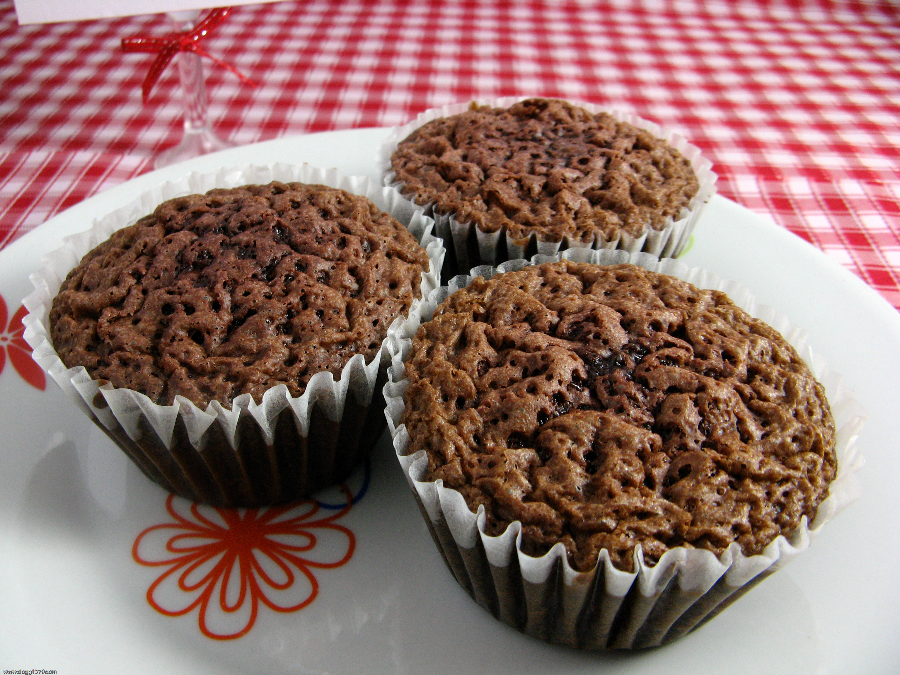 Homemade brownie cupcakes.